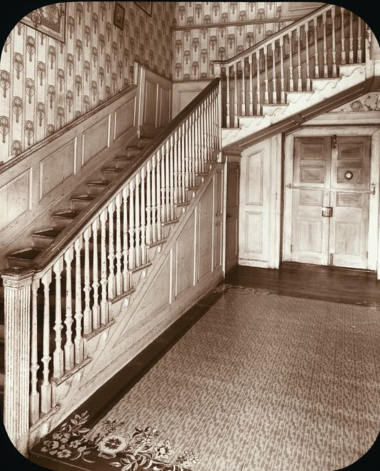 Title ["Harewood," Samuel Washington house, vicinity of Charles Town, West Virginia. Staircase] Contributor Names Johnston, Frances Benjamin, 1864-1952, photographer Created / Published [between ca. 1930 and 1939] Subject Headings - Houses--West Virginia--Charles Town--1930-1940 - Interiors--West Virginia--Charles Town--1930-1940 - Stairways--West Virginia--Charles Town--1930-1940 Format Headings Lantern slides--1930-1940. Notes - Site History: House designed by John Ariss in 1770 for Samuel Washington. - Title, date, and subject information from matching print in LOT 12644, marked as having a negative J70-1002. (Image is similar in style to Carnegie Survey of the Architecture of the South, but no matching image was found there. Possibly from her ca. 1900 work in this region.) - Slide for lecturing on "Tales Old Houses Tell." - Forms part of: Garden and historic house lecture series in the Frances Benjamin Johnston Collection (Library of Congress). - Condition caution: cracked slide. - Formerly in Box 30. Medium 1 photograph : glass lantern slide, sepia-toned ; 3.25 x 4 in. Call Number/Physical Location LC-J717-X106- 36 [P&P] Repository Library of Congress Prints and Photographs Division Washington, D.C. 20540 USA Digital Id ppmsca 16606 //hdl.loc.gov/loc.pnp/ppmsca.16606 Library of Congress Control Number 2008675906 Reproduction Number LC-DIG-ppmsca-16606 (digital file from original item) Rights Advisory No known restrictions on publication. Online Format image Description 1 photograph : glass lantern slide, sepia-toned ; 3.25 x 4 in. LCCN Permalink